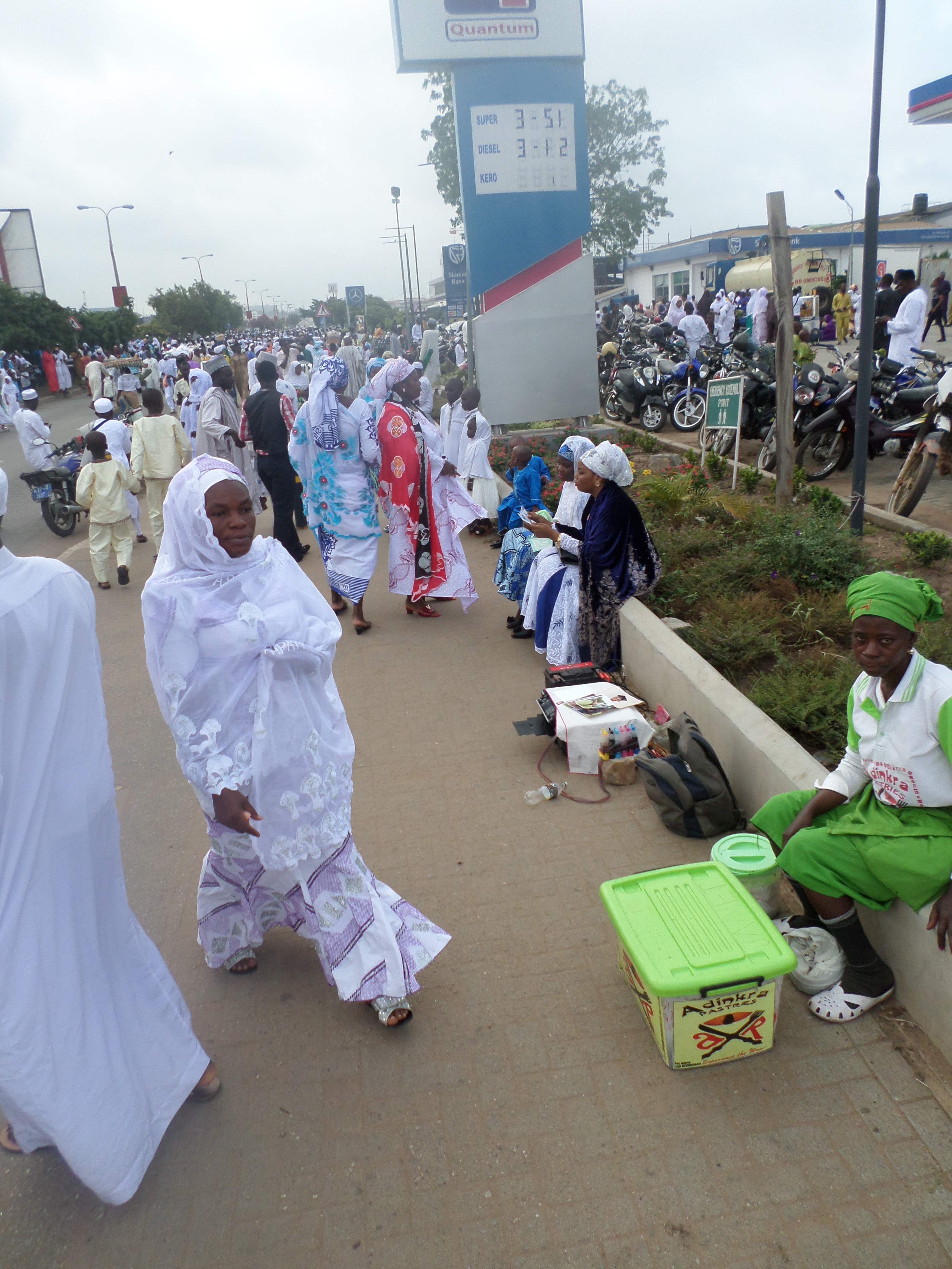 People from several hours ride come to Accra Central Mosque to pray together the blessings of the sacrifice and the successful completion of Ramadan. This is an image of Cultural Fashion or Adornment from Ghana